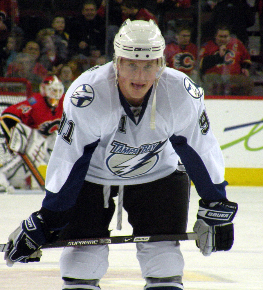 Tampa Bay Lightning forward Steven Stamkos during warm-up prior to a game against the Calgary Flames in Calgary.